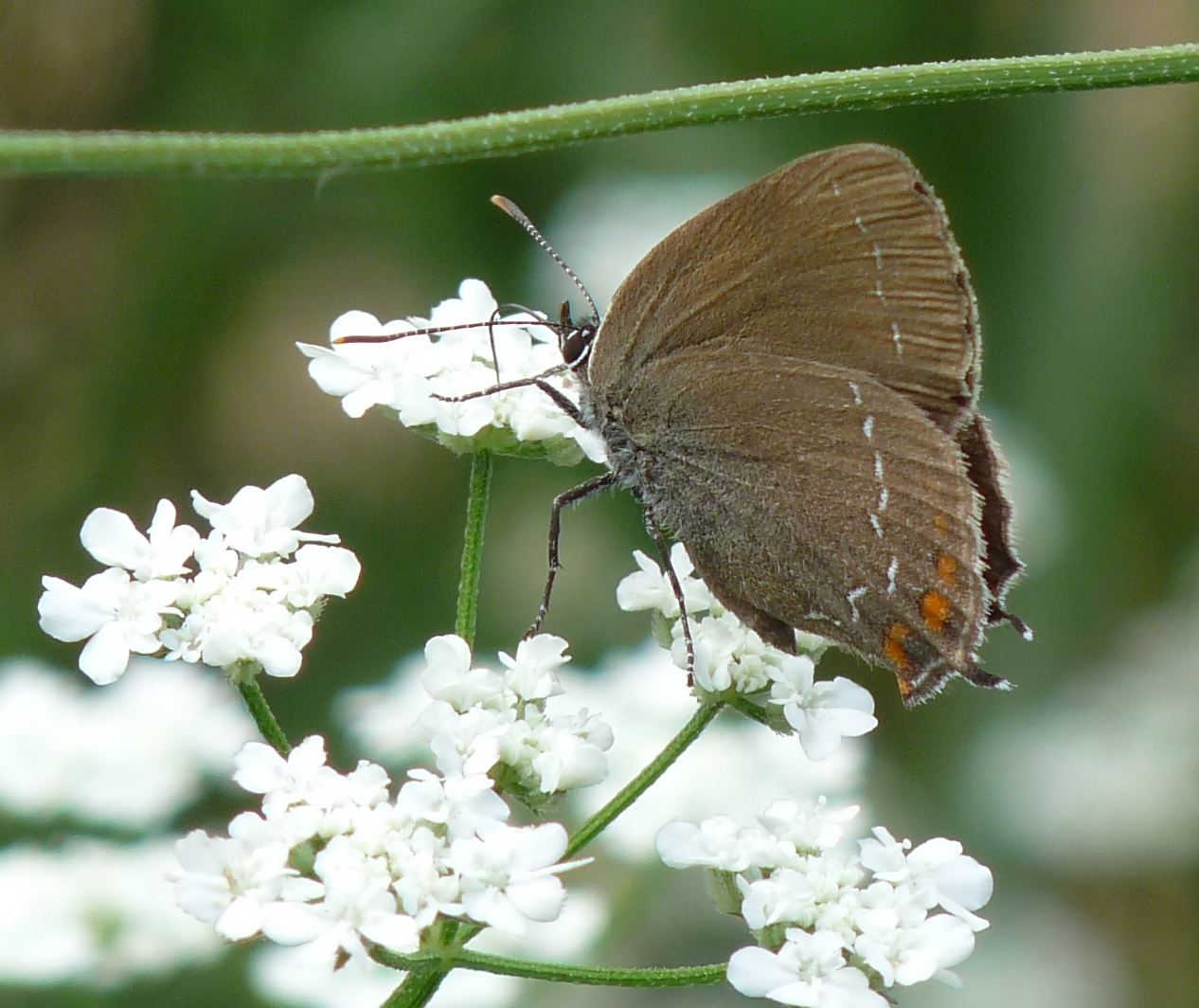 Satyrium ilicis, near Livorno, Tuscany, Italy